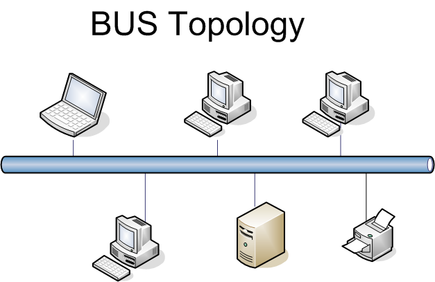 This is a network diagram of Bus Toplogy created in Microsoft Visio Software.